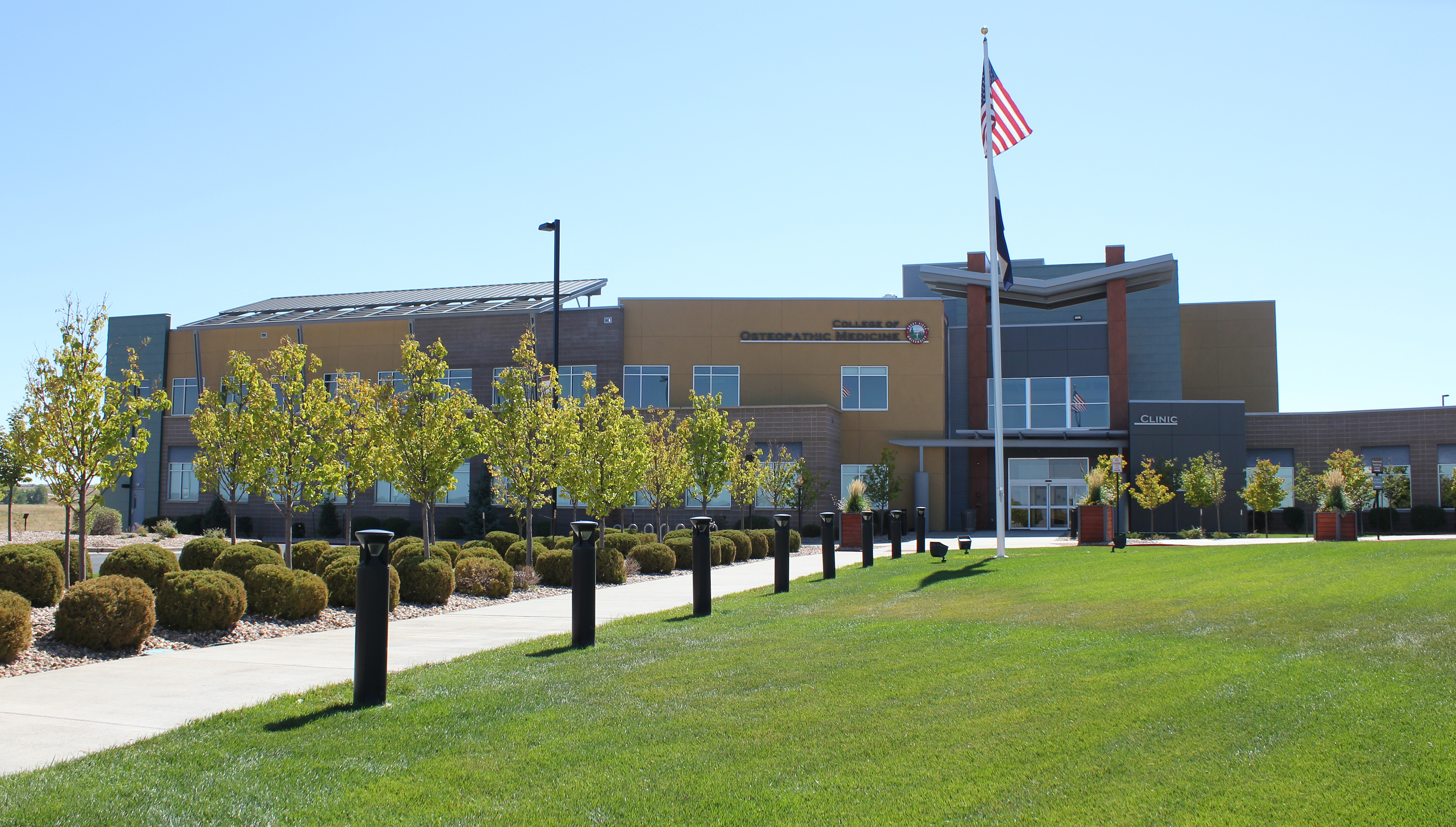 The Rocky Vista University College of Osteopathic Medicine, located at 8401 South Chambers Road in Parker, Colorado.